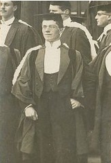 Ronald Fisher 1912 in his Graduation at Cambridge University